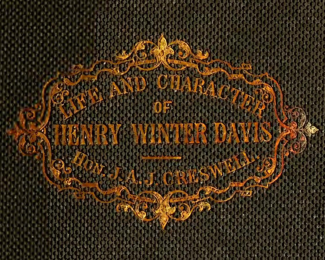 Subjects: Davis, Henry Winter, 1817-1865